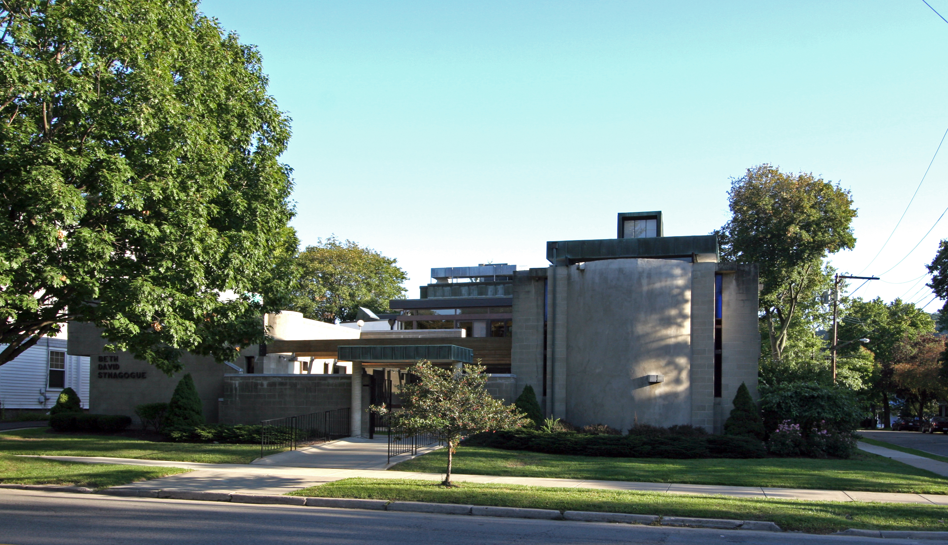 Beth David Synagogue, Binghamton NY. The first work that received pubic notice.